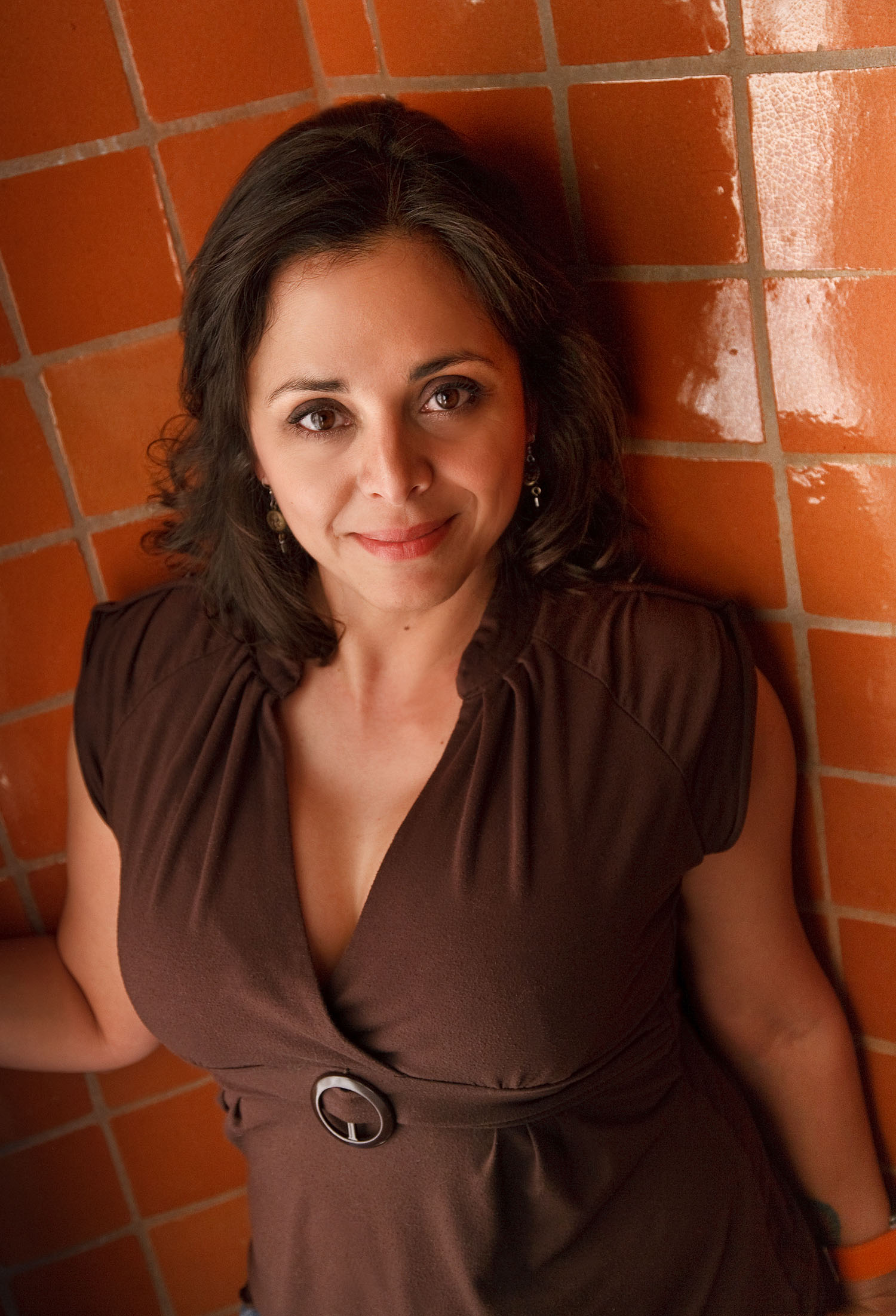 Television personality Carla Turco / Tucson, Arizona USA 2010. Photograph by Dominic Arizona Bonuccelli. Shot in Tucson, Arizona USA.